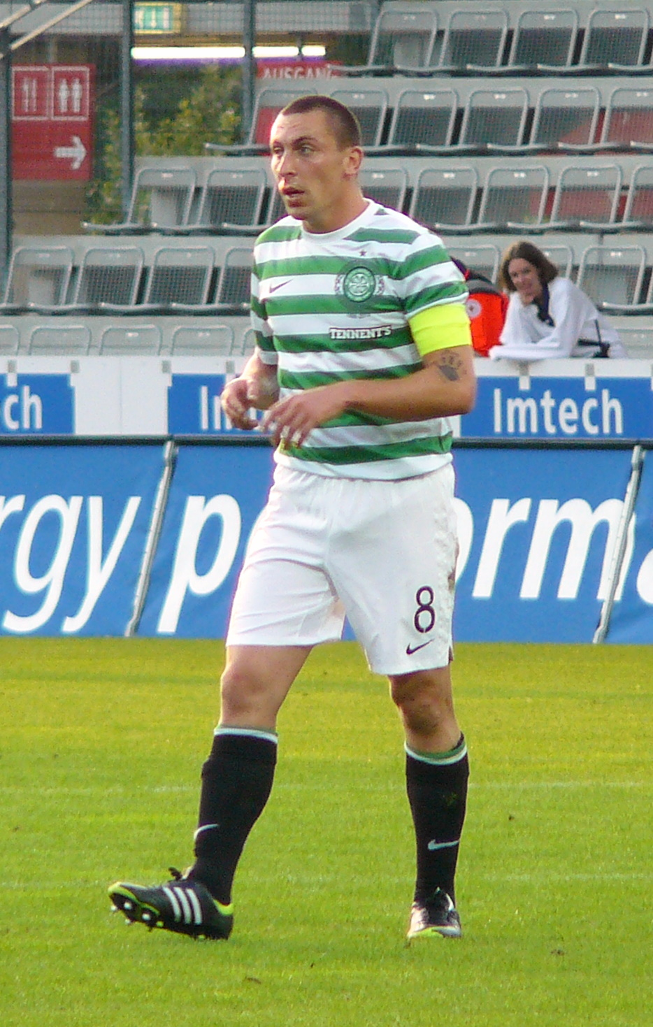 Scott Brown, Scottish footballer